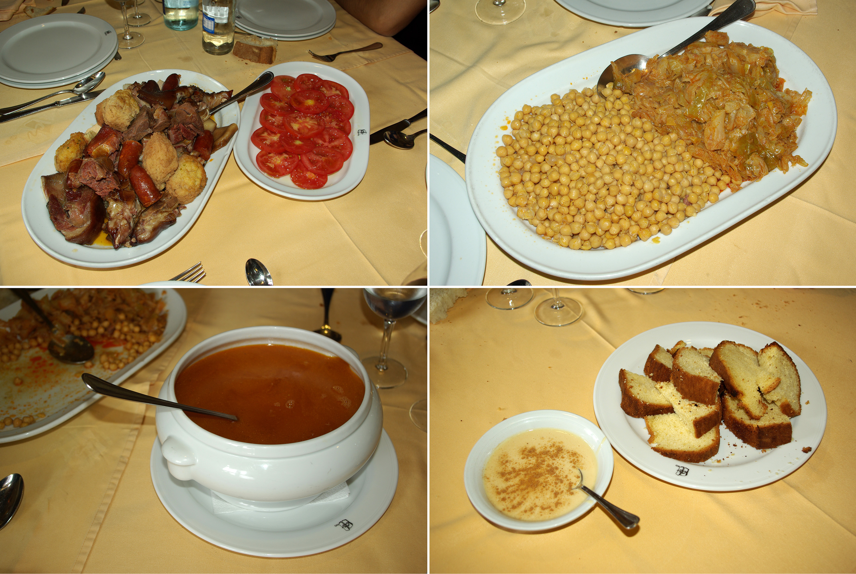 First, second, third dishes and dessert of the traditional stew from Maragatería called "cocido maragato". Castrillo de los Polvazares (Astorga, Province of León, Spain).